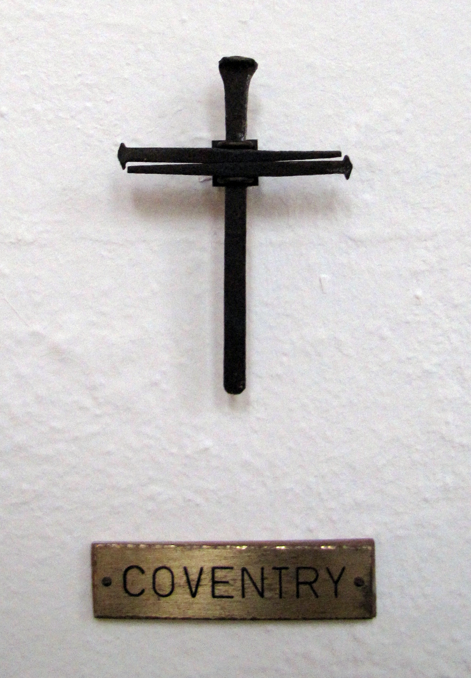 Cross of Nails from Coventry in the Nikolaikirche, Kiel